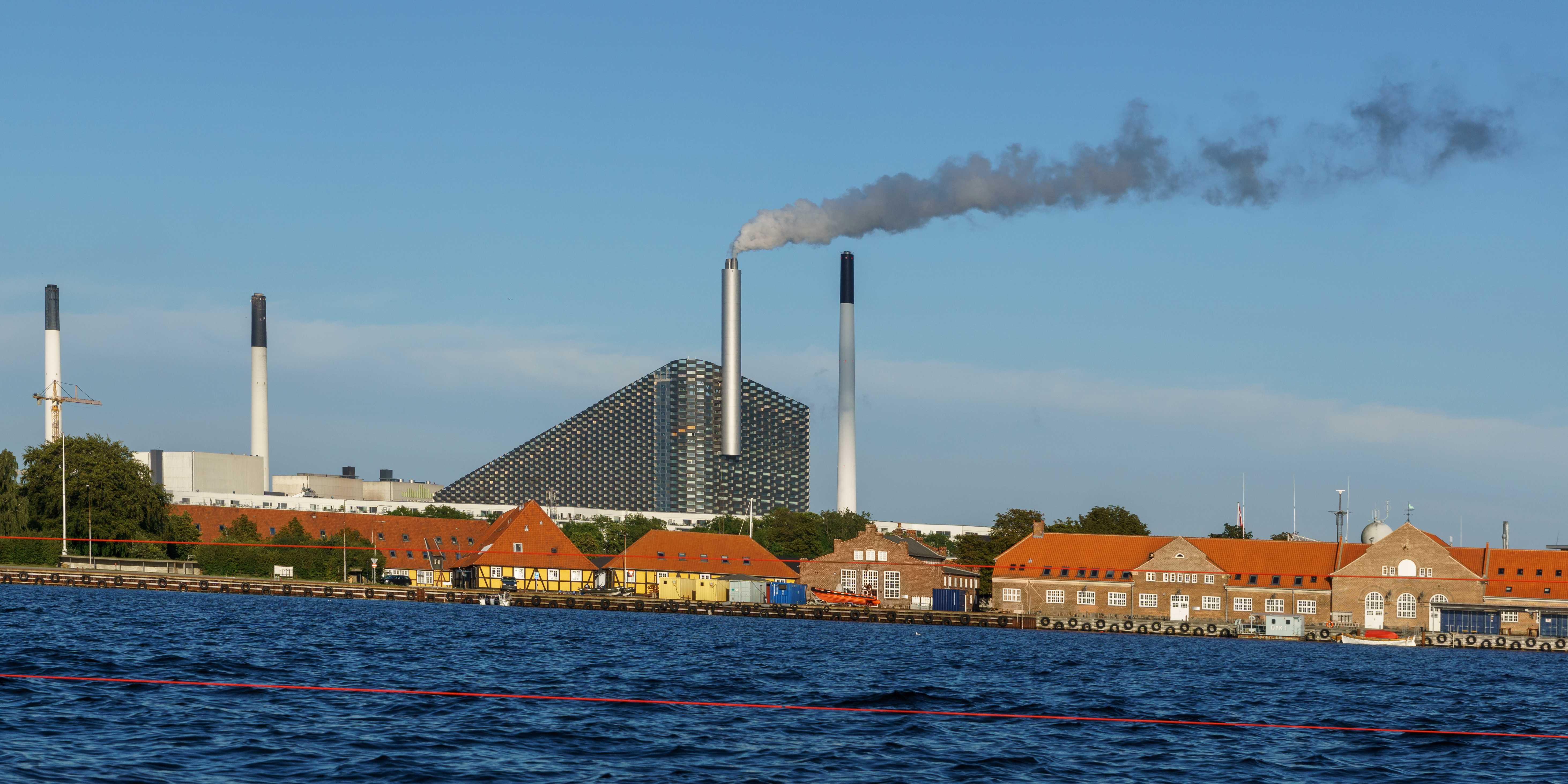 Amager Bakke, Copenhagen